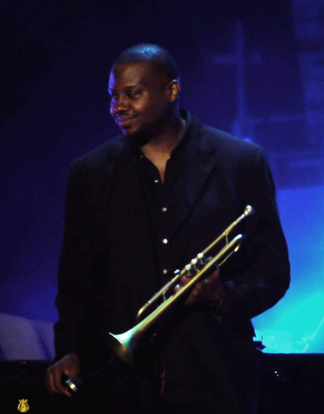 Sean Jones resting after his solo on a trumpet at Marcus+ concert in 2011